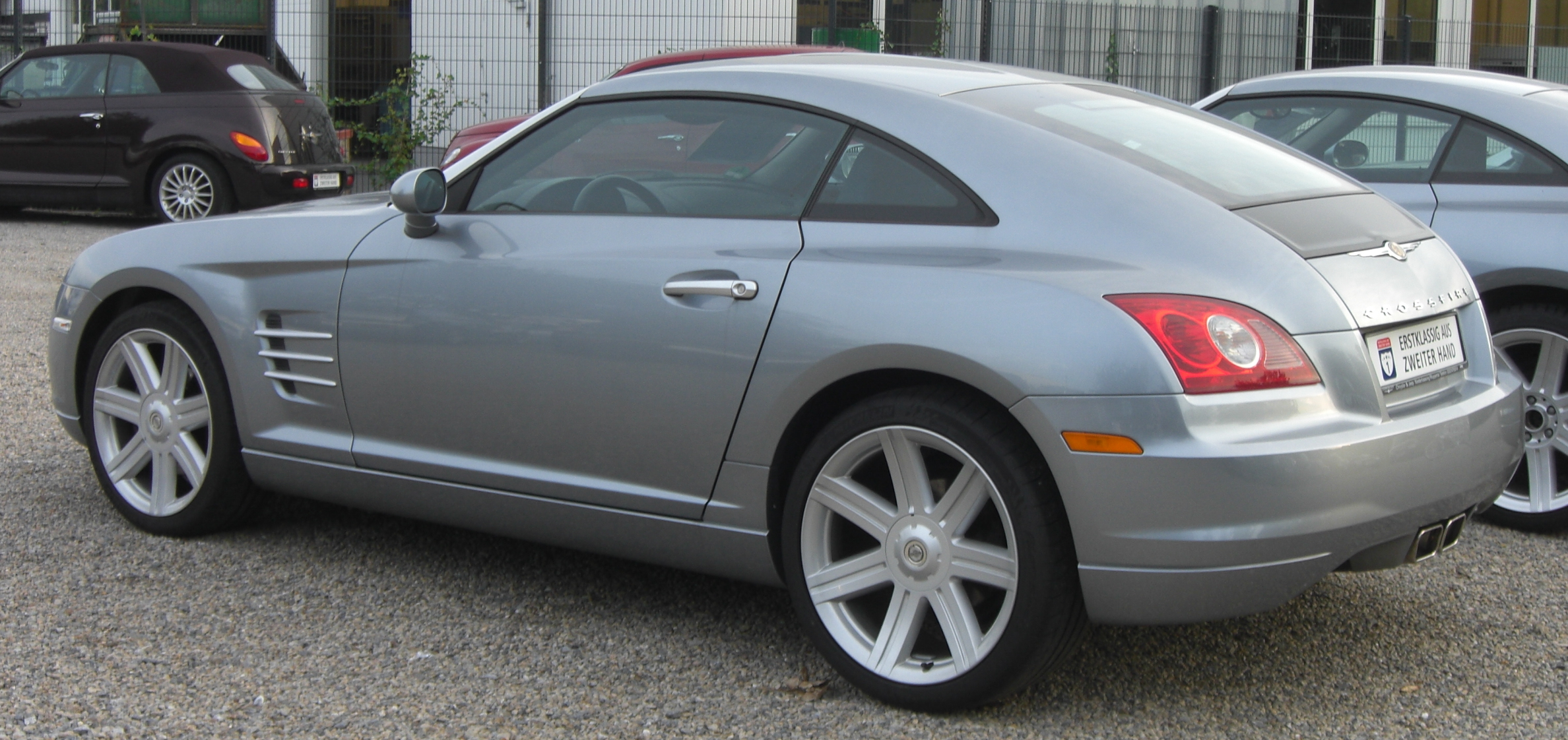 Chrysler Crossfire